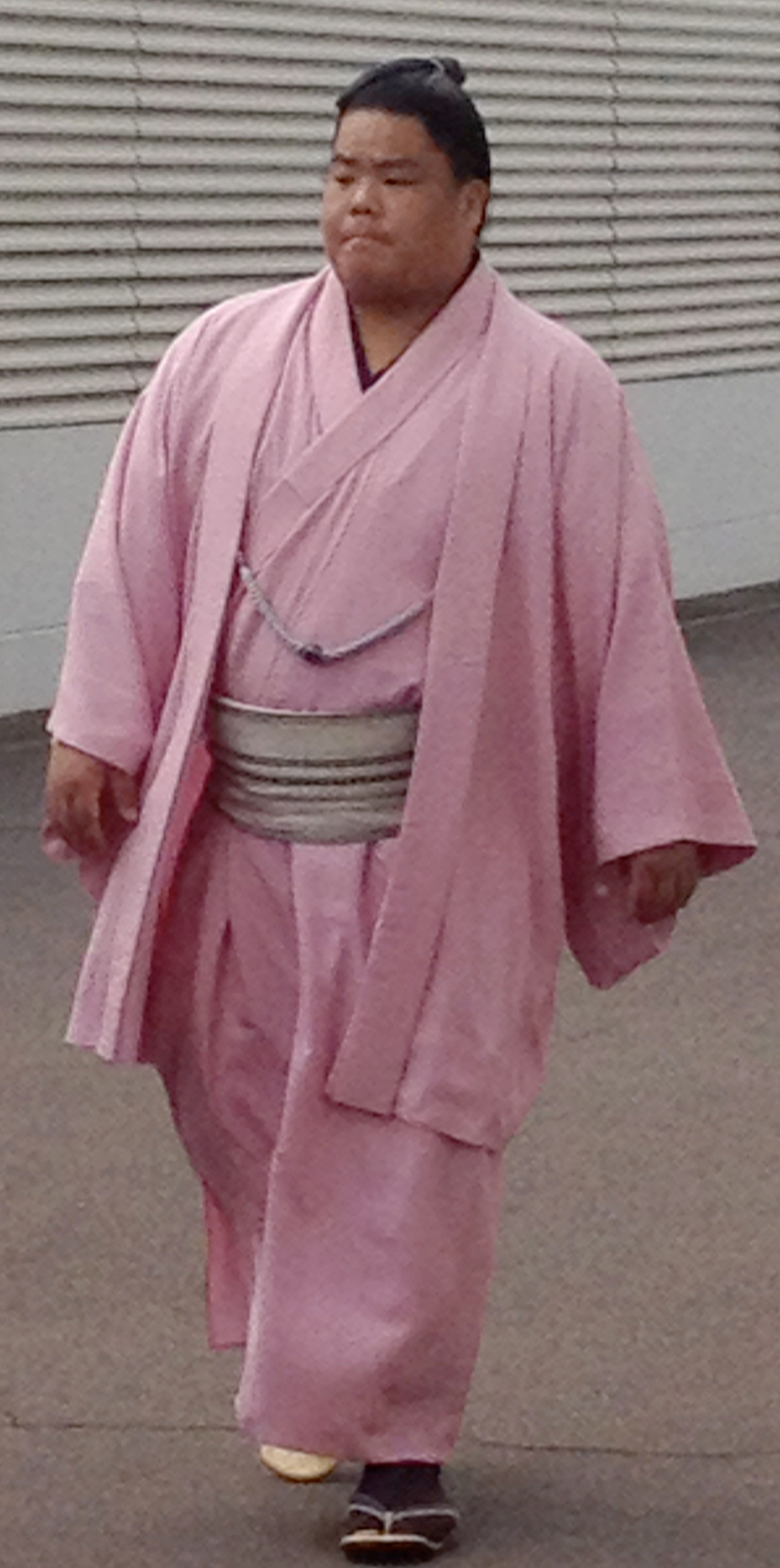 Taken at September 2014 tournament